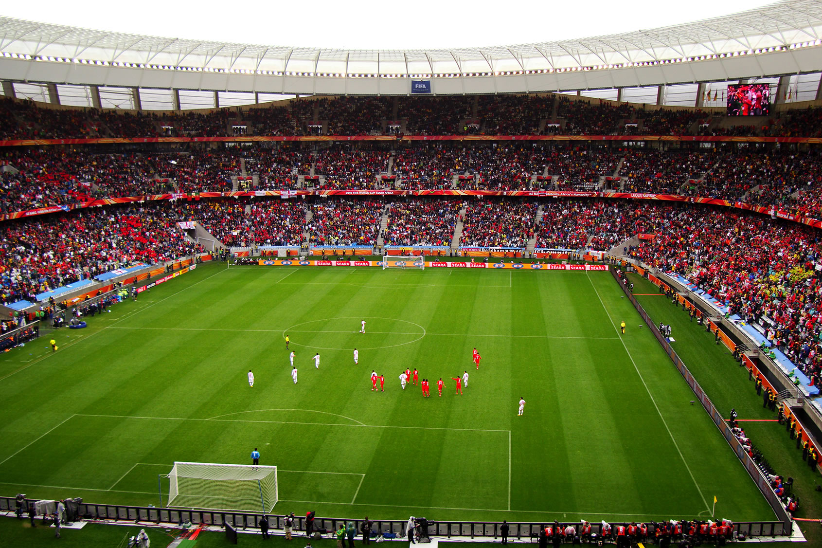 Teams during the game between Portugal and North Korea at FIFA World Cup 2010, 21 June 2010, Green Point Stadium, Cape Town